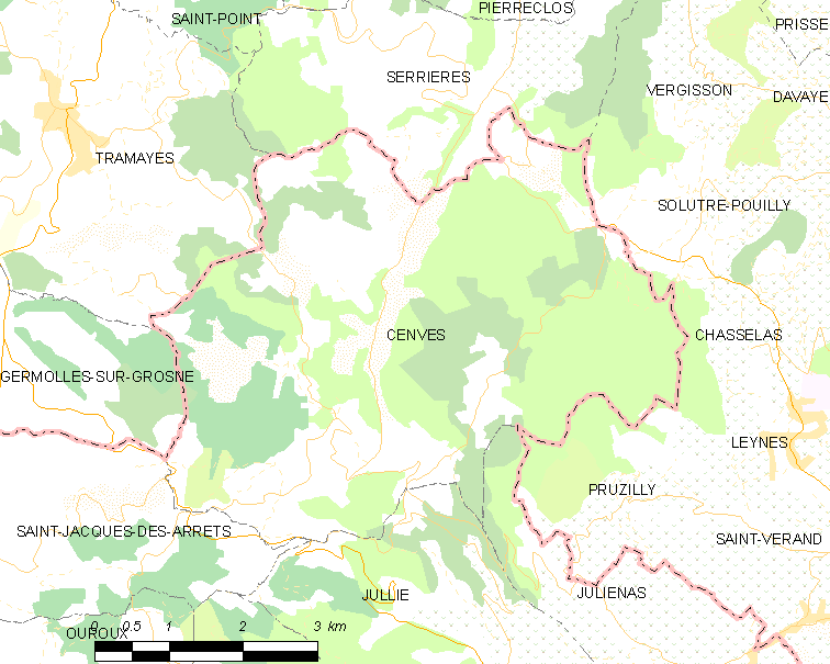 Map of French municipality